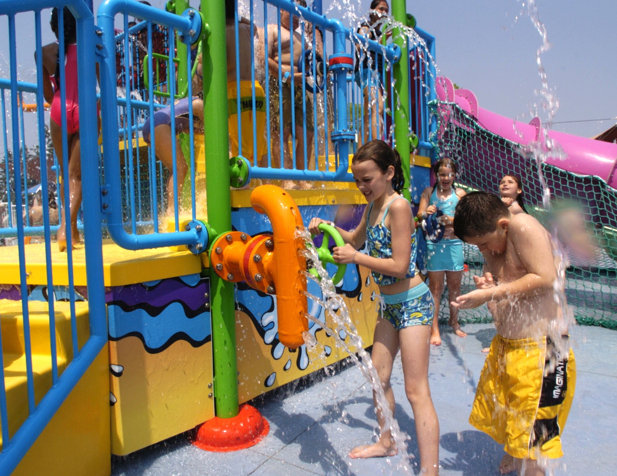 Interactive fluid user-interface: Large handwheels hydraulically control various interactive features of the park.